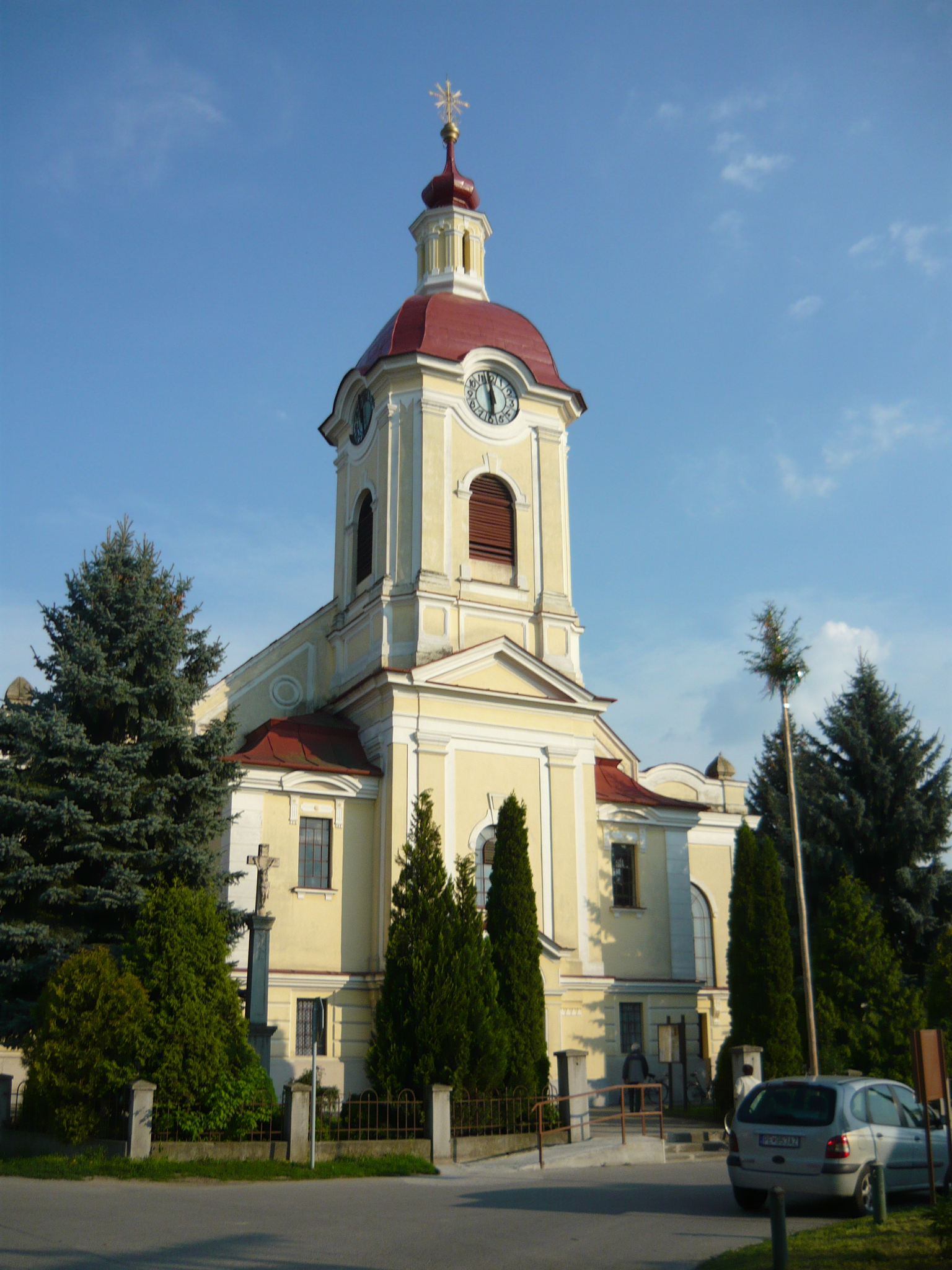 Church in Chynorany, Slovakia.